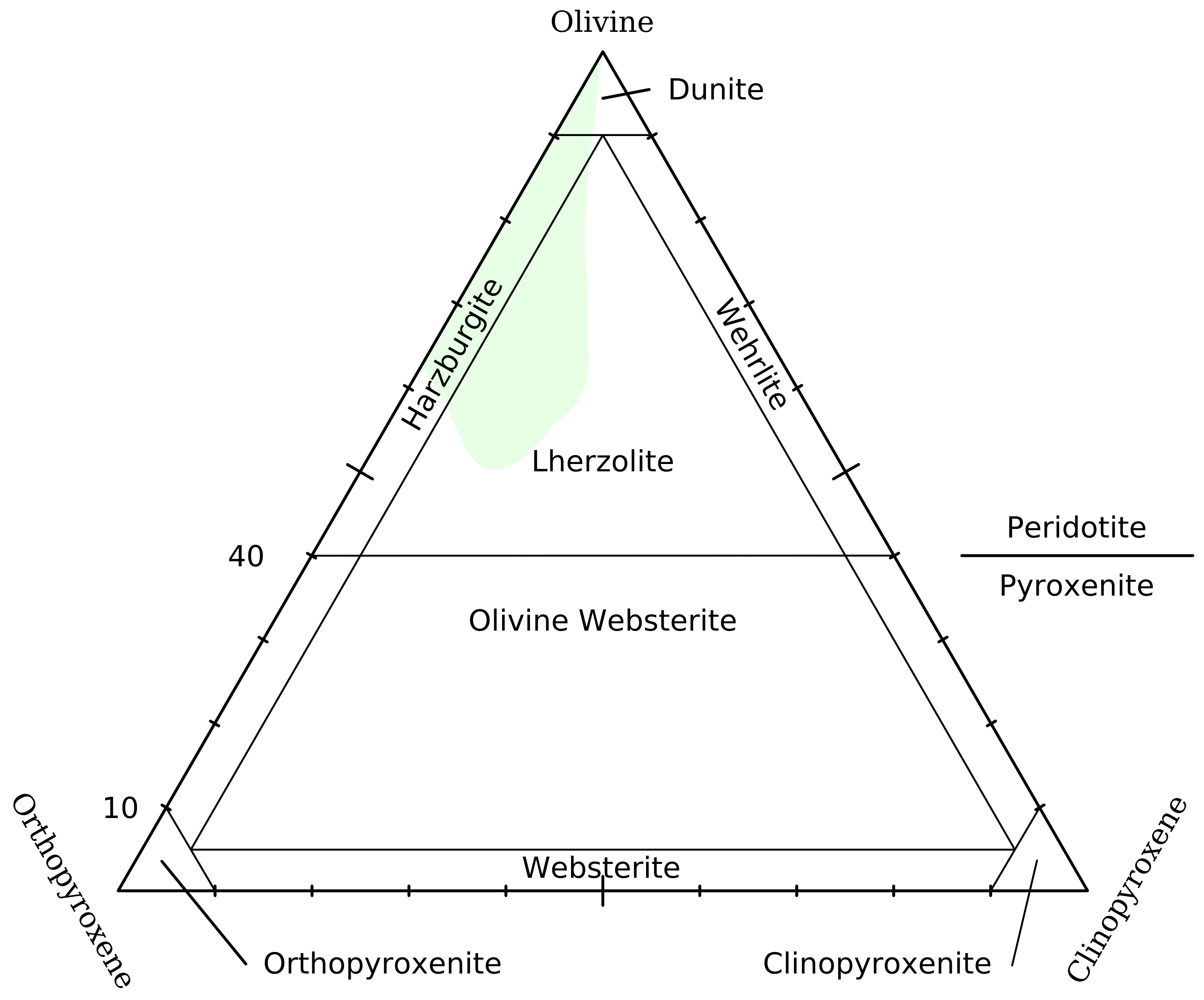 Ternary / triangle diagram of peridotites. Axes are olivine, orthopyroxene and clinopyroxene. Common peridotite compositions highlighted.